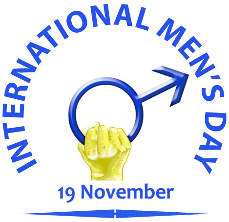 Symbol of the International Men's Day which represents strength and masculinity As you can see that the symbol is a handful of gold and a symbol of masculinity all this combined is receives "A large worth of male power", the symbol of the International Men's Day.